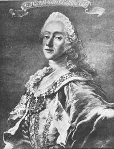 Frederik Christian Danneskiold-Samsøe (1722-1778), Danish Count, estate owner, Postmaster-General.